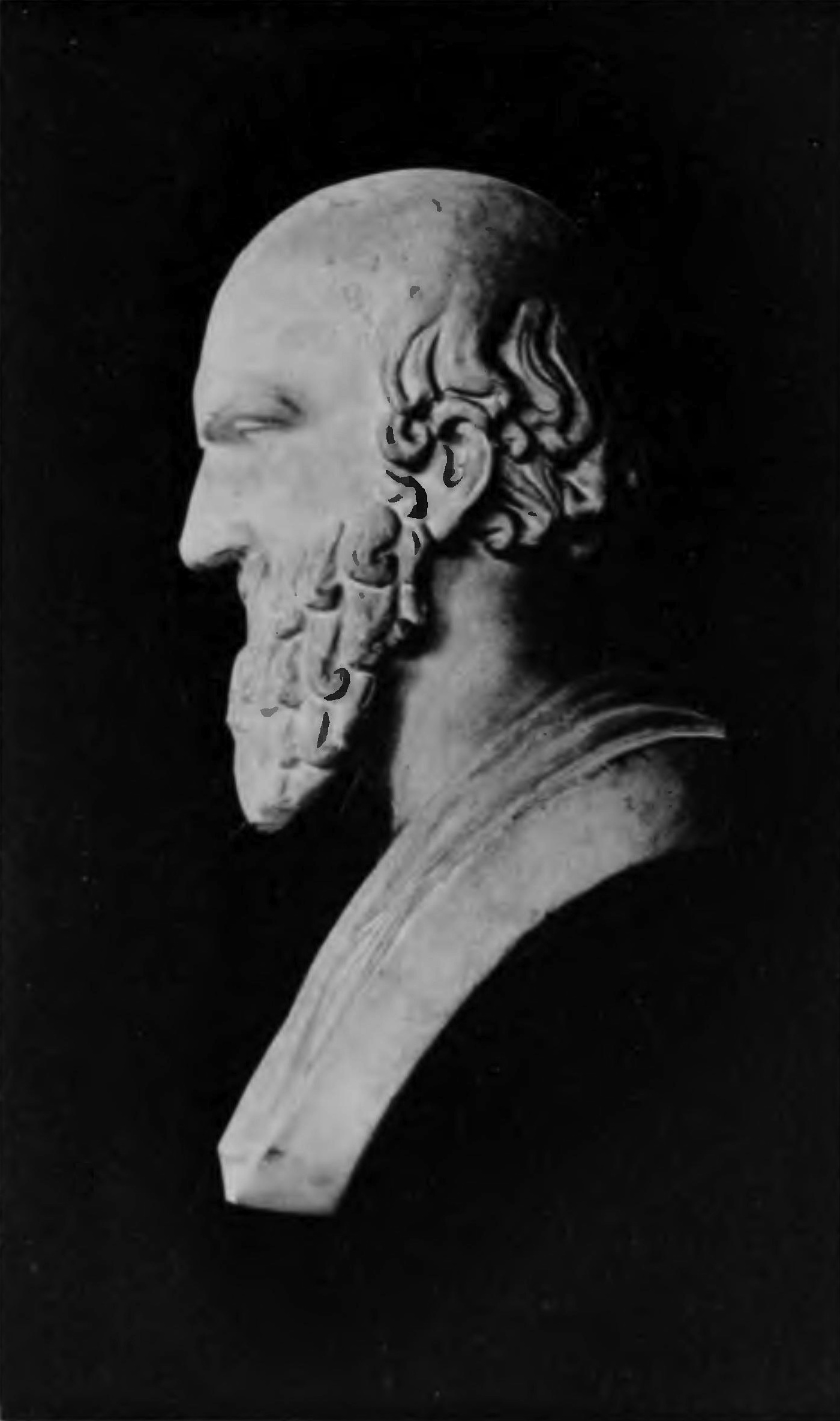 Bust of Aeschylus, in The Tragic Drama of the Greeks by Arthur Elam Haigh (1896).